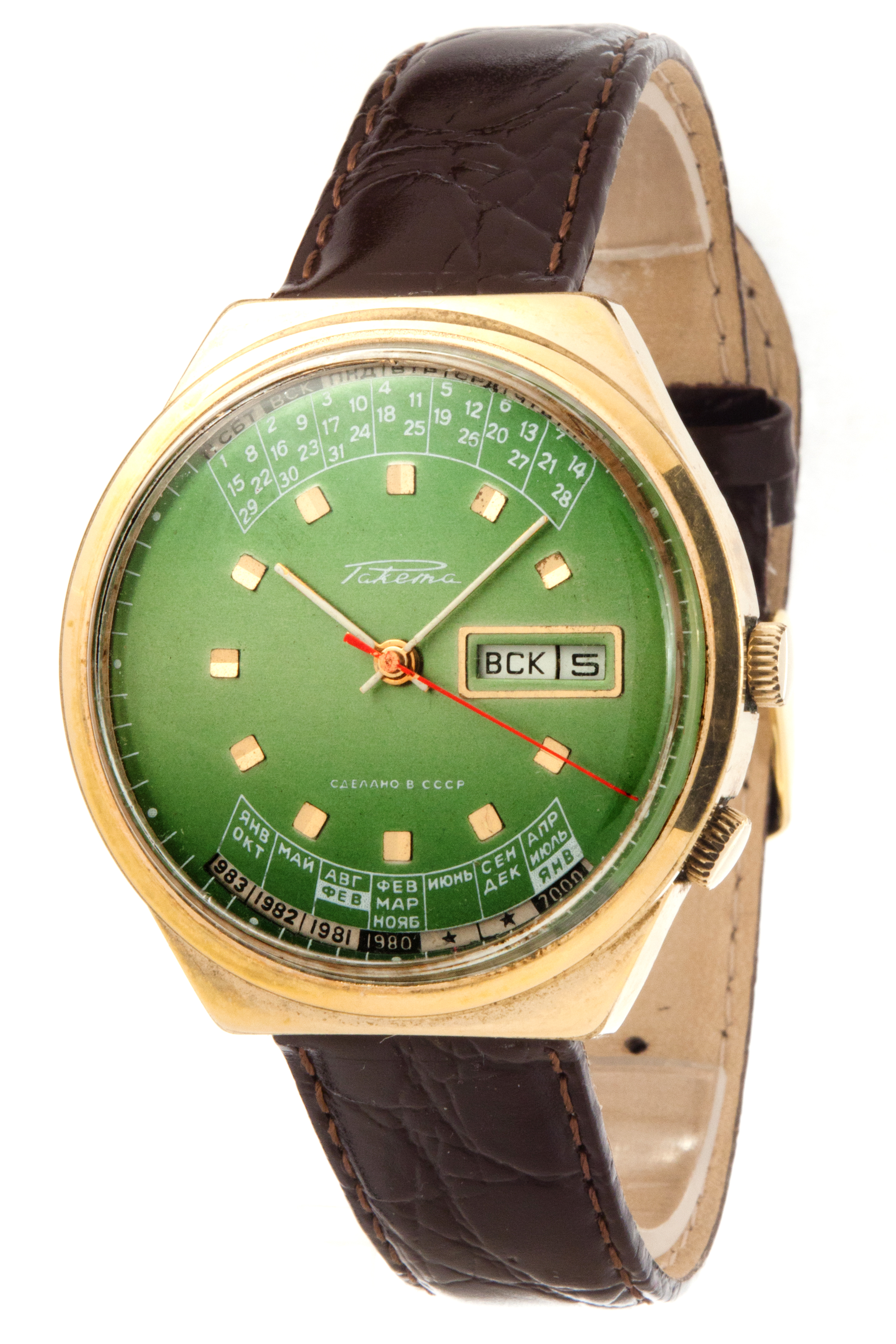 Eternal Calendar watch from 1978 - Produced by the Soviet factory Raketa